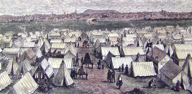 Canvas Town' Yarra river, Melbourne en-route to the diggings, from: The Victorian Gold Fields 1852-3 An Original Album by S. T. Gill